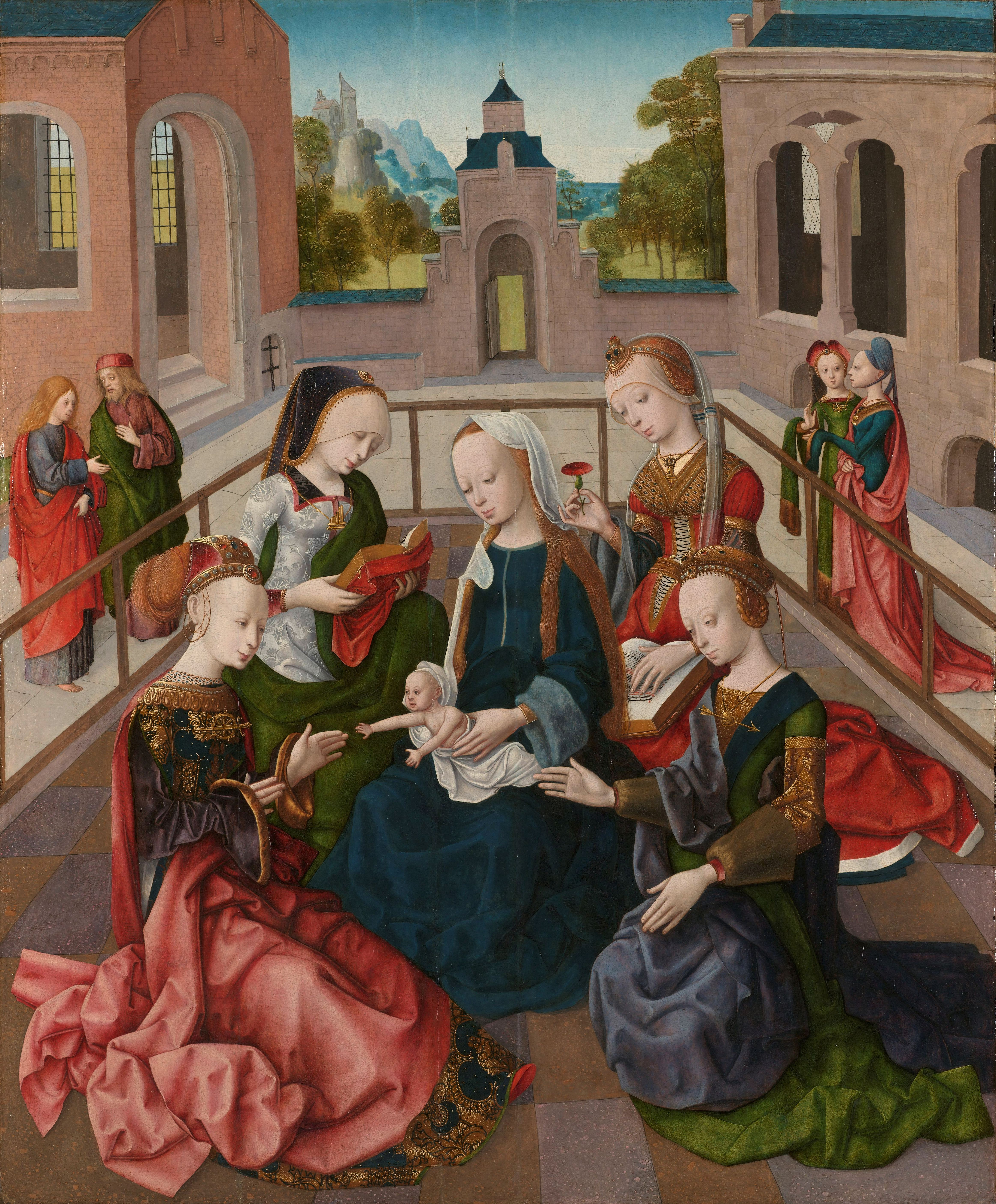 Mary with the Christ Child surrounded by four holy virgins. Saint Catherine (bottom left) is wearing a chest brooch in the shape of a wheel and a sword. Saint Cecilia (top left) is holding a book and wears a necklace with an organ-shaped pendant. Saint Barbara (top right), in red, holds a flower and wears a miniature tower on her necklace. Saint Ursula (bottom right), with braided hair, wears a necklace with heart and arrow. They are sitting in a enclosed courtyard, possibly of a monastery. Outside the enclosure, on the left, two men, possibly Saints John and James, are standing. On the right two women, probably Saint Mary Magdelene and Margaret.